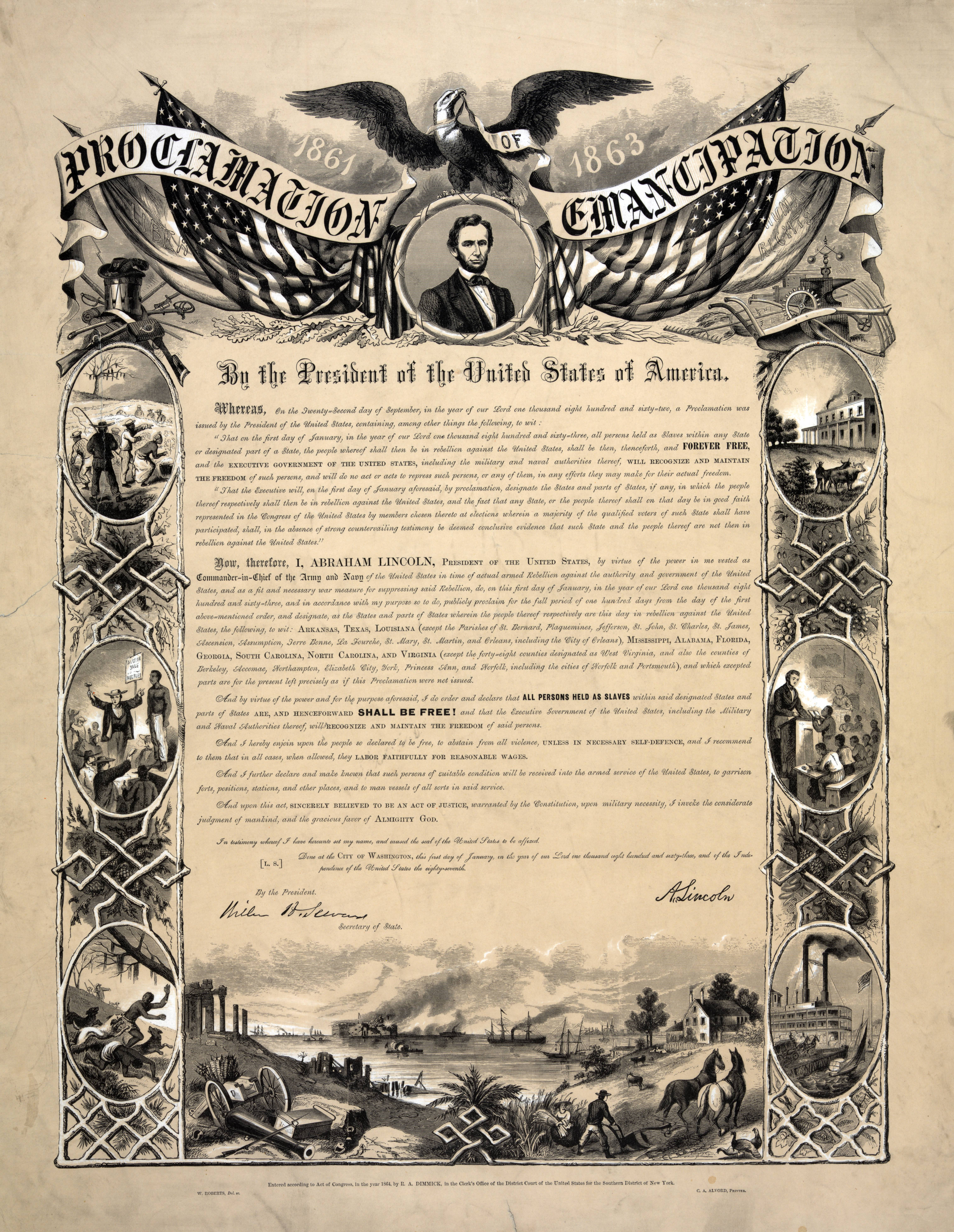 Photograph of a reproduction of the Emancipation Proclamation